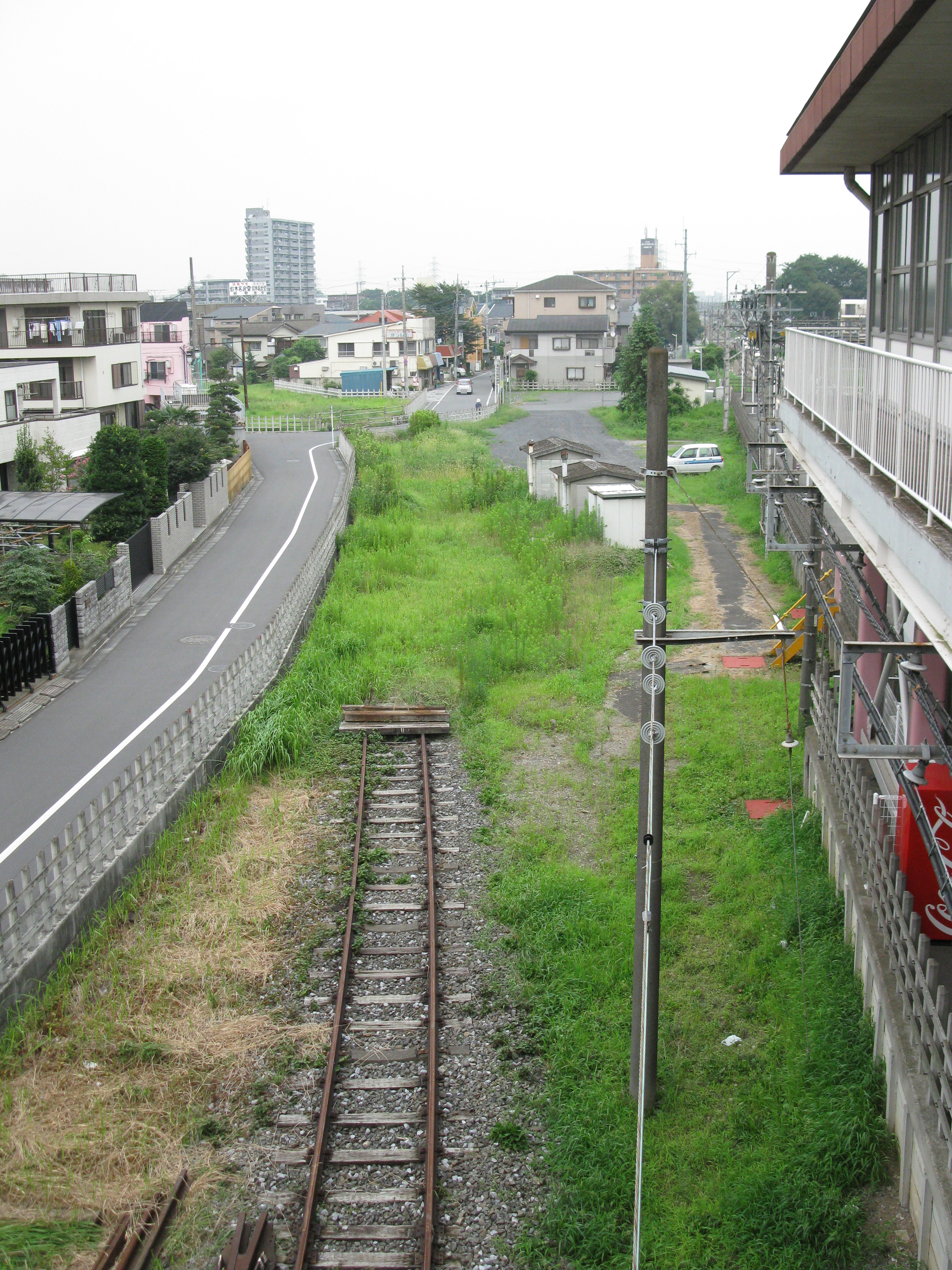 Minami-Ōtsuka Station (Seibu Railway Ahina Line)